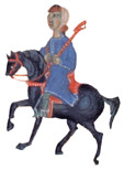 Peirol, from BnF MS 12473.